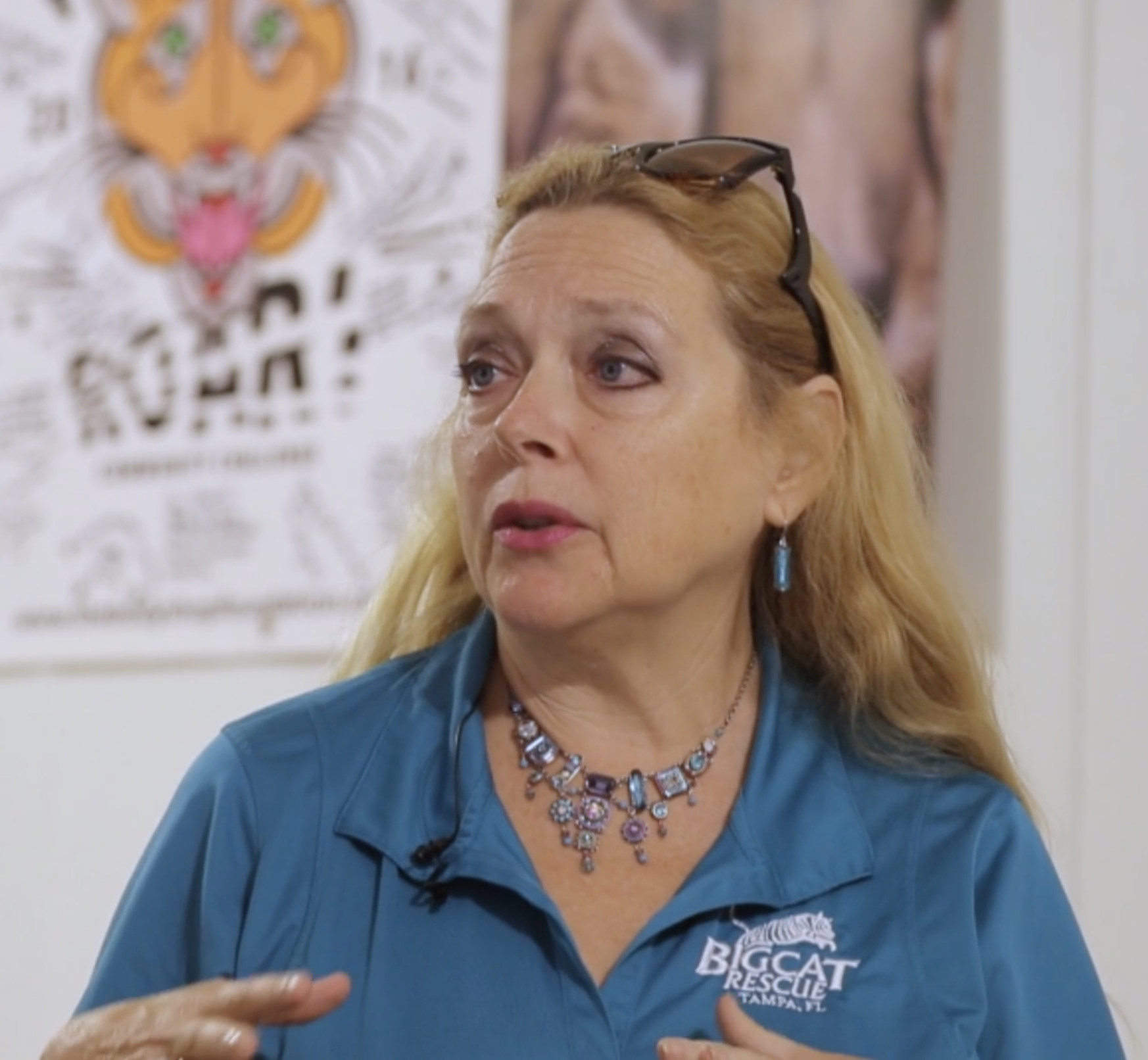 Video screenshot of a September 2019 interview with Carole Baskin